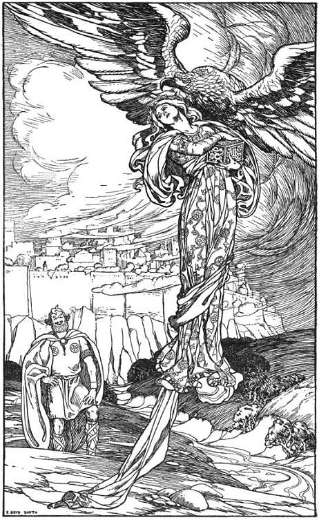 "He flapped away with her, magic apples and all" by Elmer Boyd Smith. The jötunn Þjazi, in the form of an eagle, abducts the goddess Iðunn.